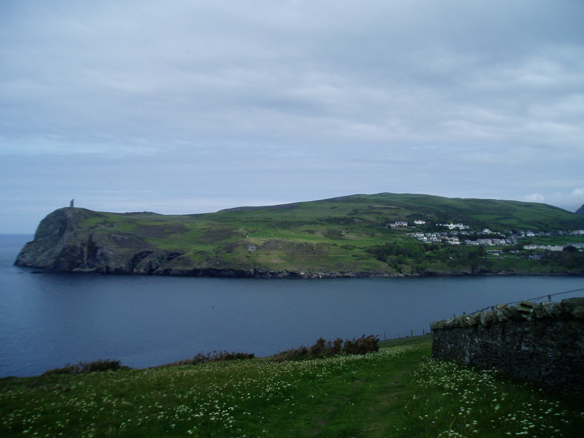 Picture of Bradda Head, with Milner's Tower. Port Erin is just to the right. Picture taken by ericbobson, 7th June 2005